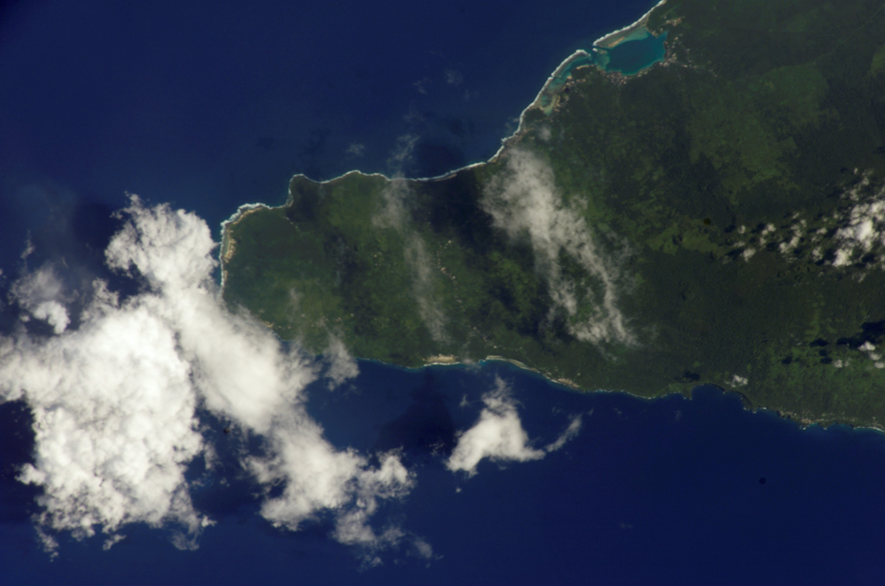 Savai'i island western end (Vaisigano district) with clouds.